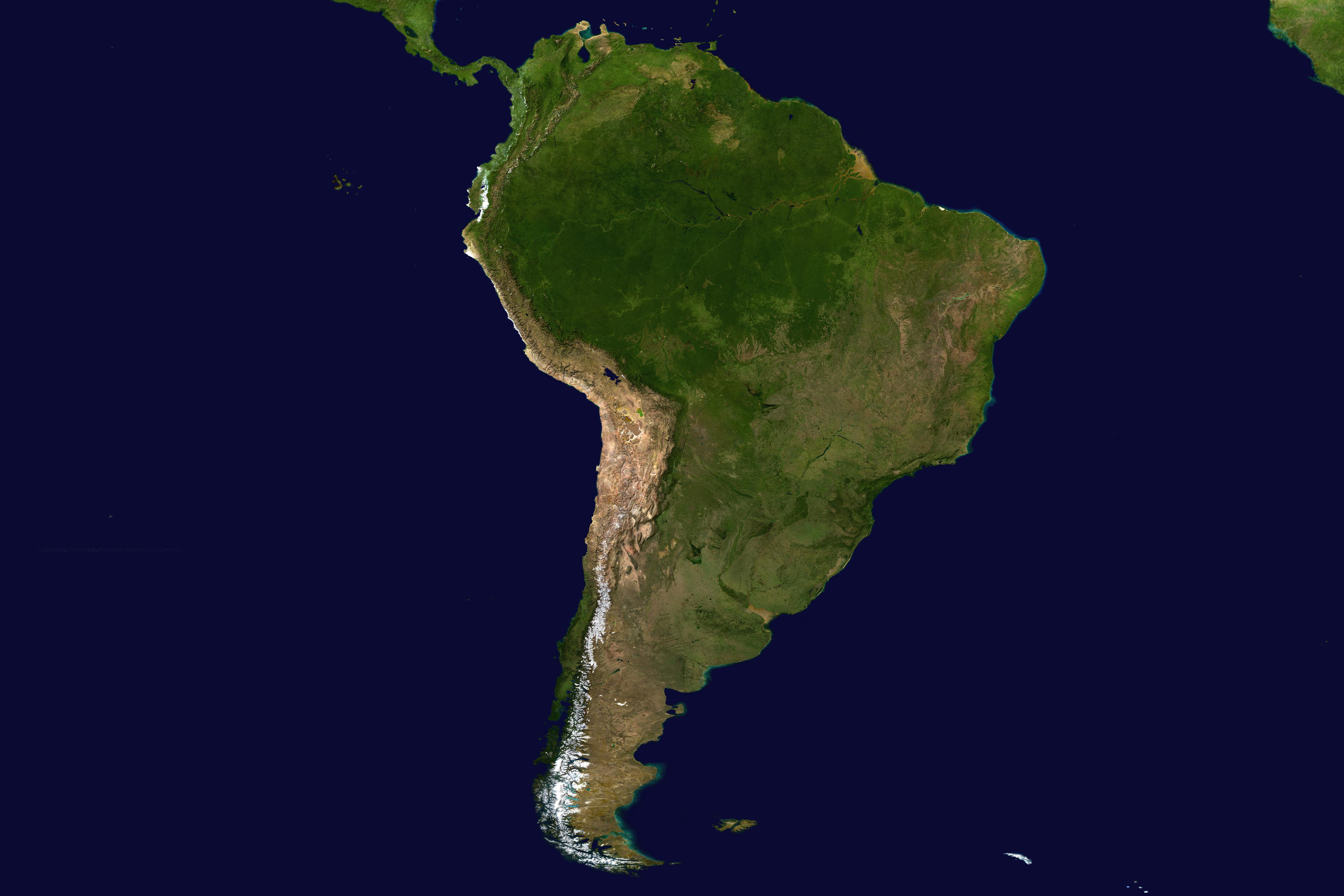 South America topic image Satellite image.